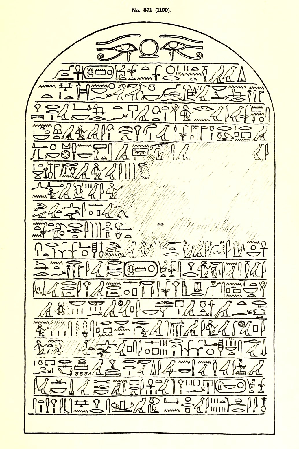 Drawing of a stele of the High Priest of Osiris Nebwawy with his autobiographic career, mentioning his priesthood for the deified pharaoh Ahmose I and his victory over some rebels during the reign of Hatshepsut. From Abydos. Reign of Thutmose III, 18th Dynasty, New Kingdom. London, British Museum EA1199.